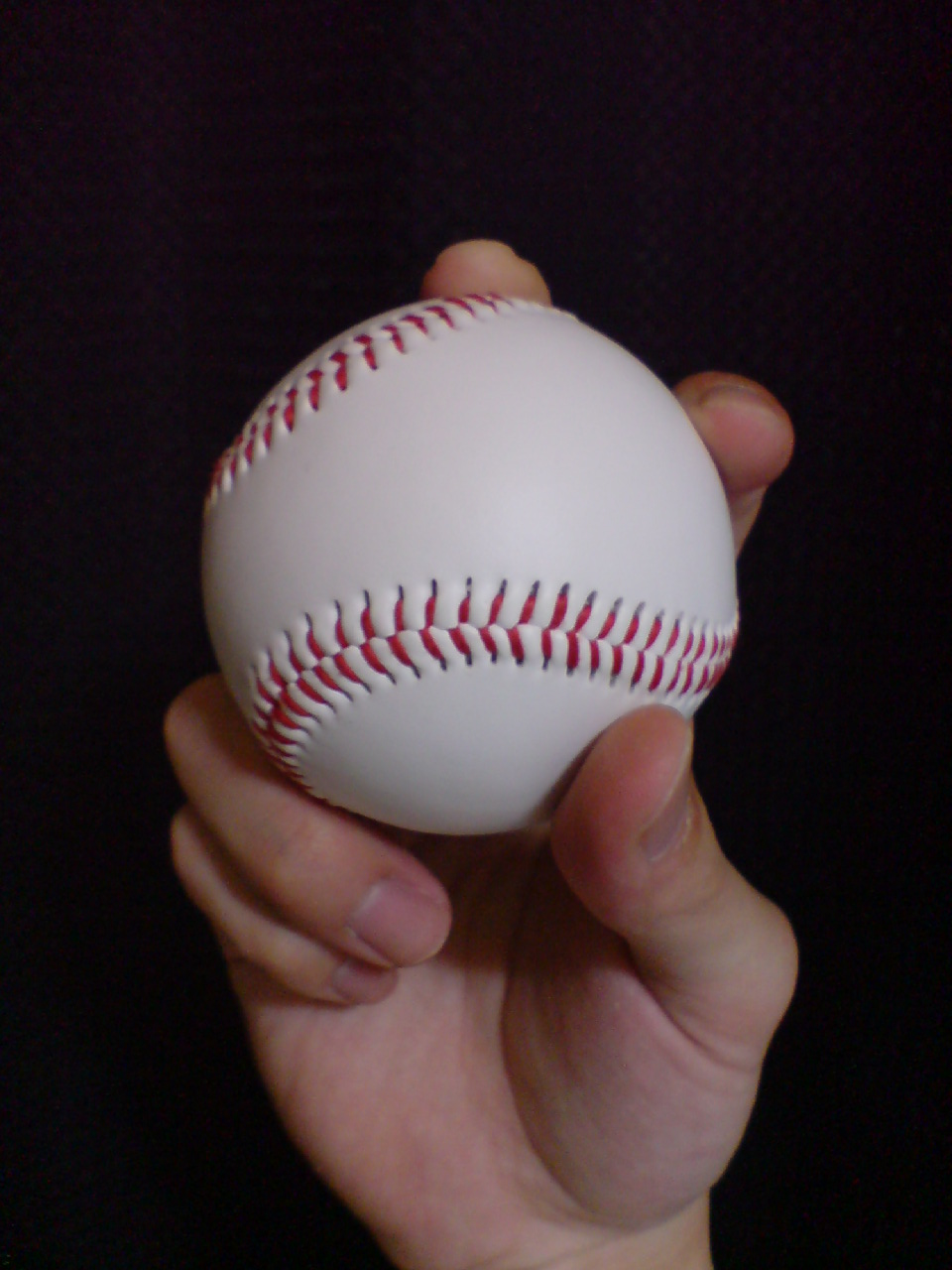 Sinker